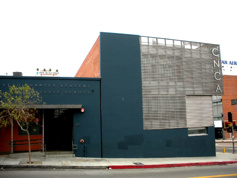 Camino Nueve Charter Academy, Burlington site, Los Angeles